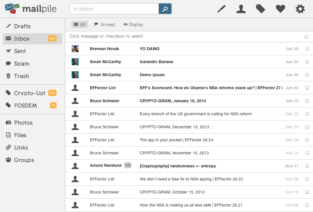 Screenshot of the Inbox view of FOSS webmail client Mailpile